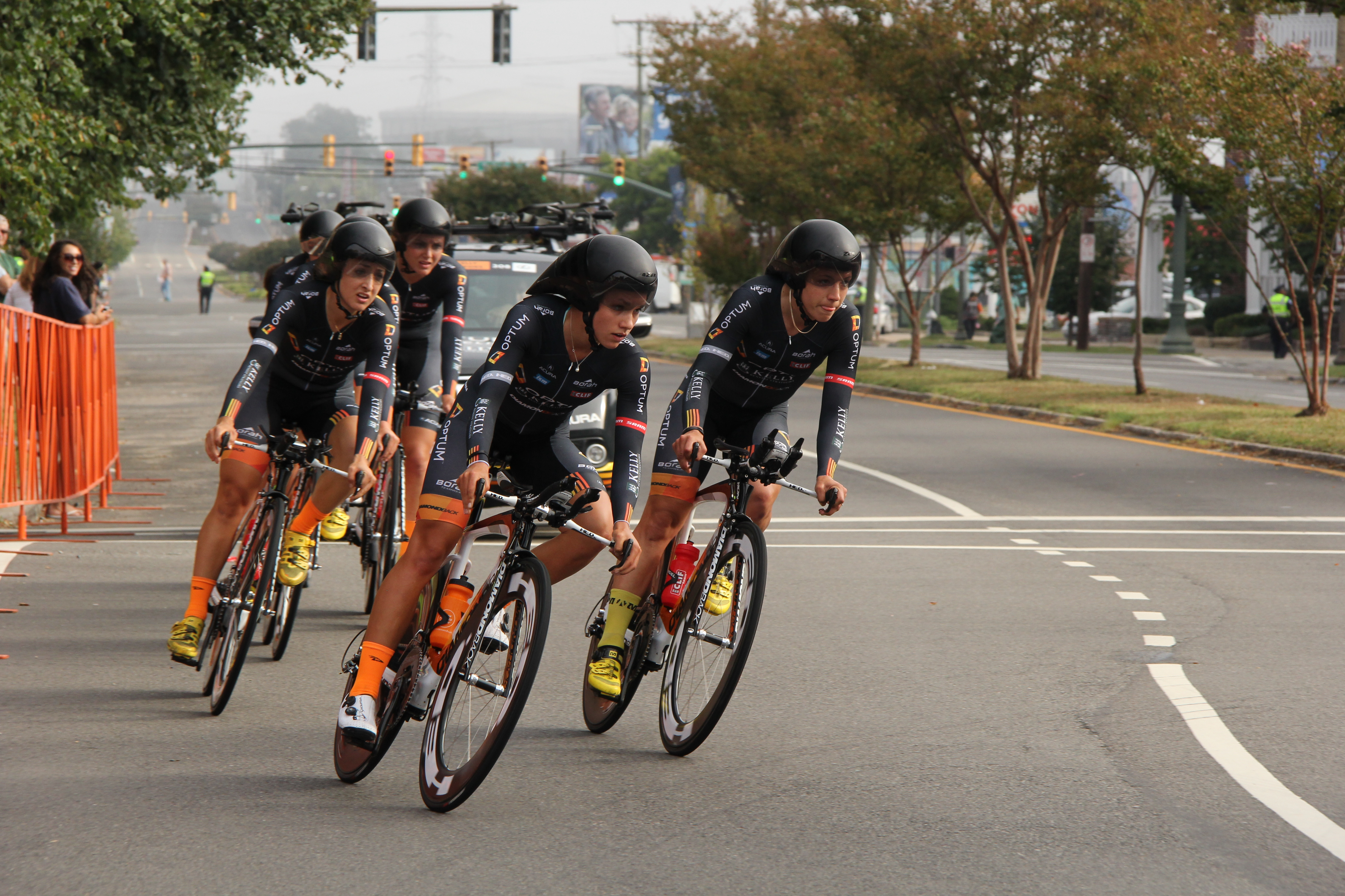 The world has come to Richmond. Welcome! Bienvenidos! Willkommen! 2015 UCI Road World Championships, in Richmond, United States